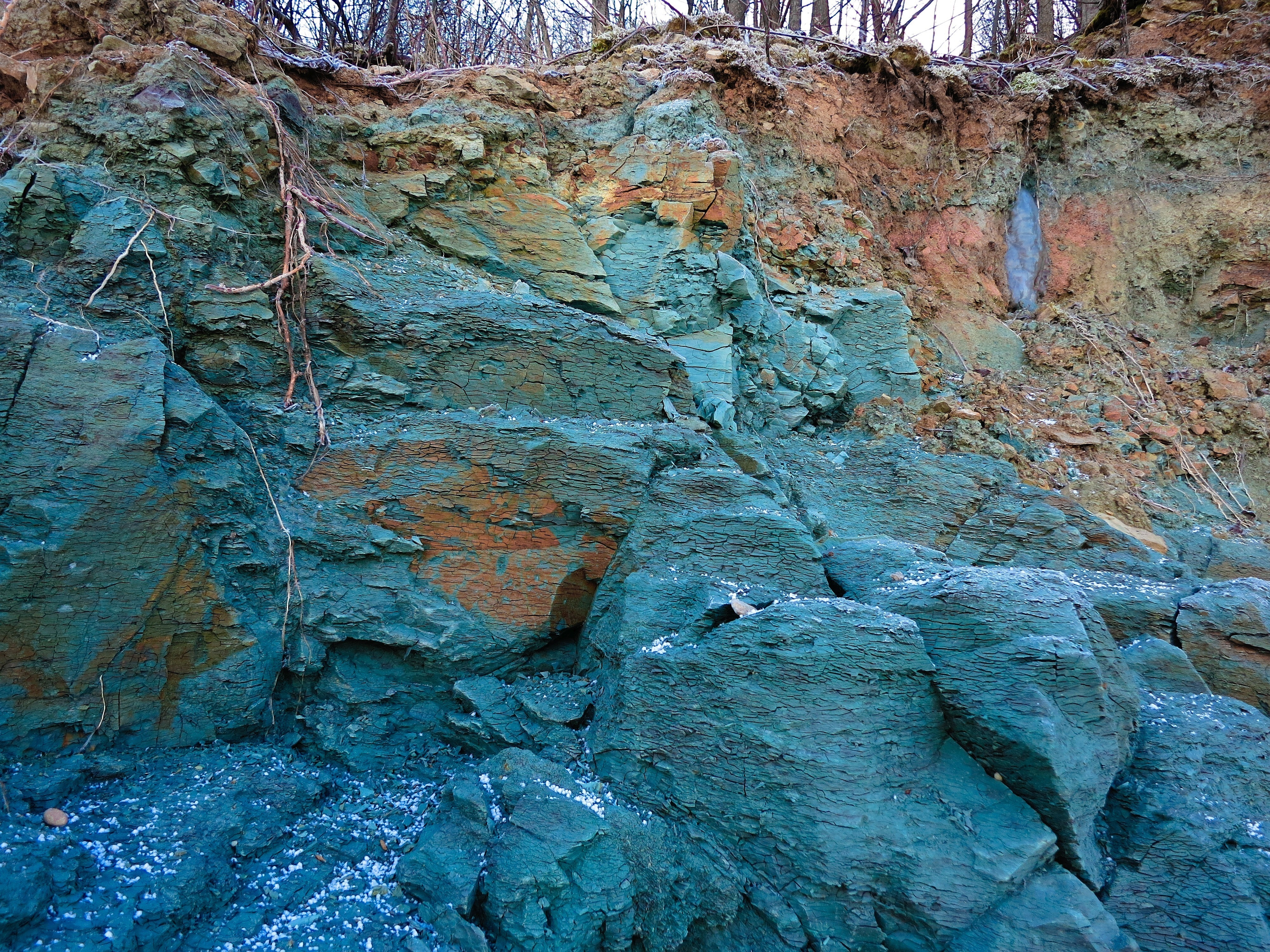 Cambrian blue clay outcrop at beach of Gulf of Finland in Voka. (Ida-Viru County, Estonia)